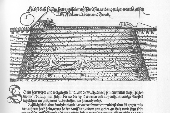 Albrecht Durer Roundel Tower from ‘Etliche Underricht zur Befestigung der Stett Schloss und Flecken, published in 1527